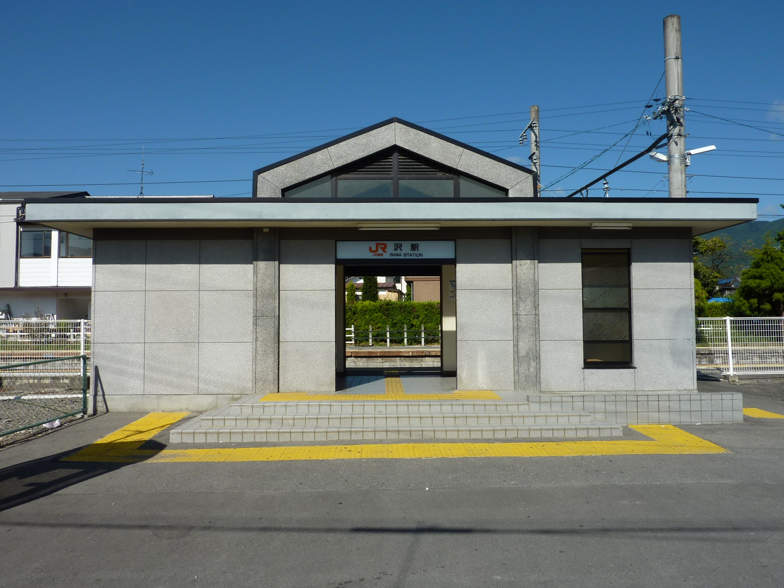 Sawa Station on JR Iida Line. (500,Nakaminowa,Minowa-machi,Kamiina-gun,Nagano-ken,JAPAN)